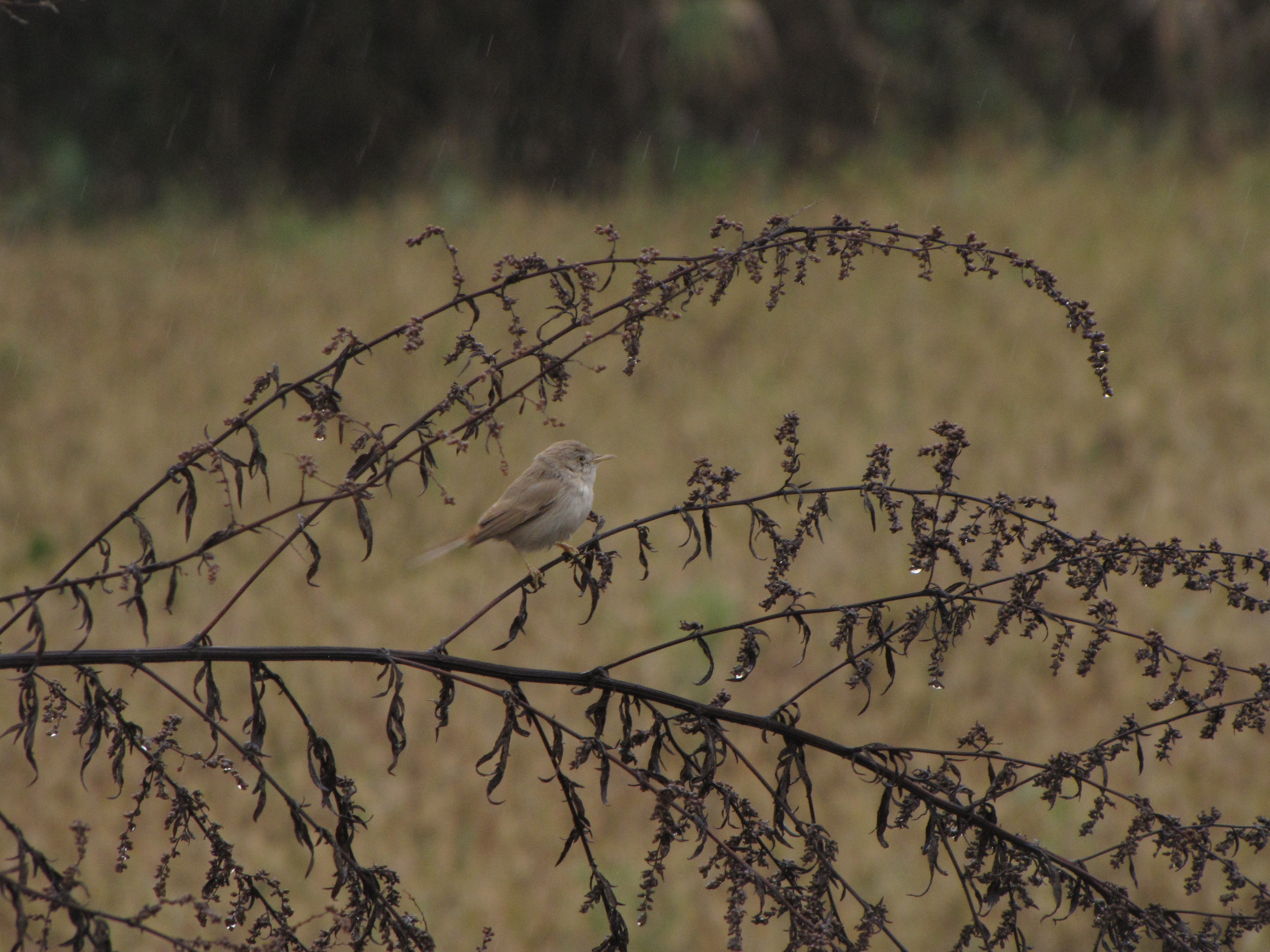 Asian desert warbler